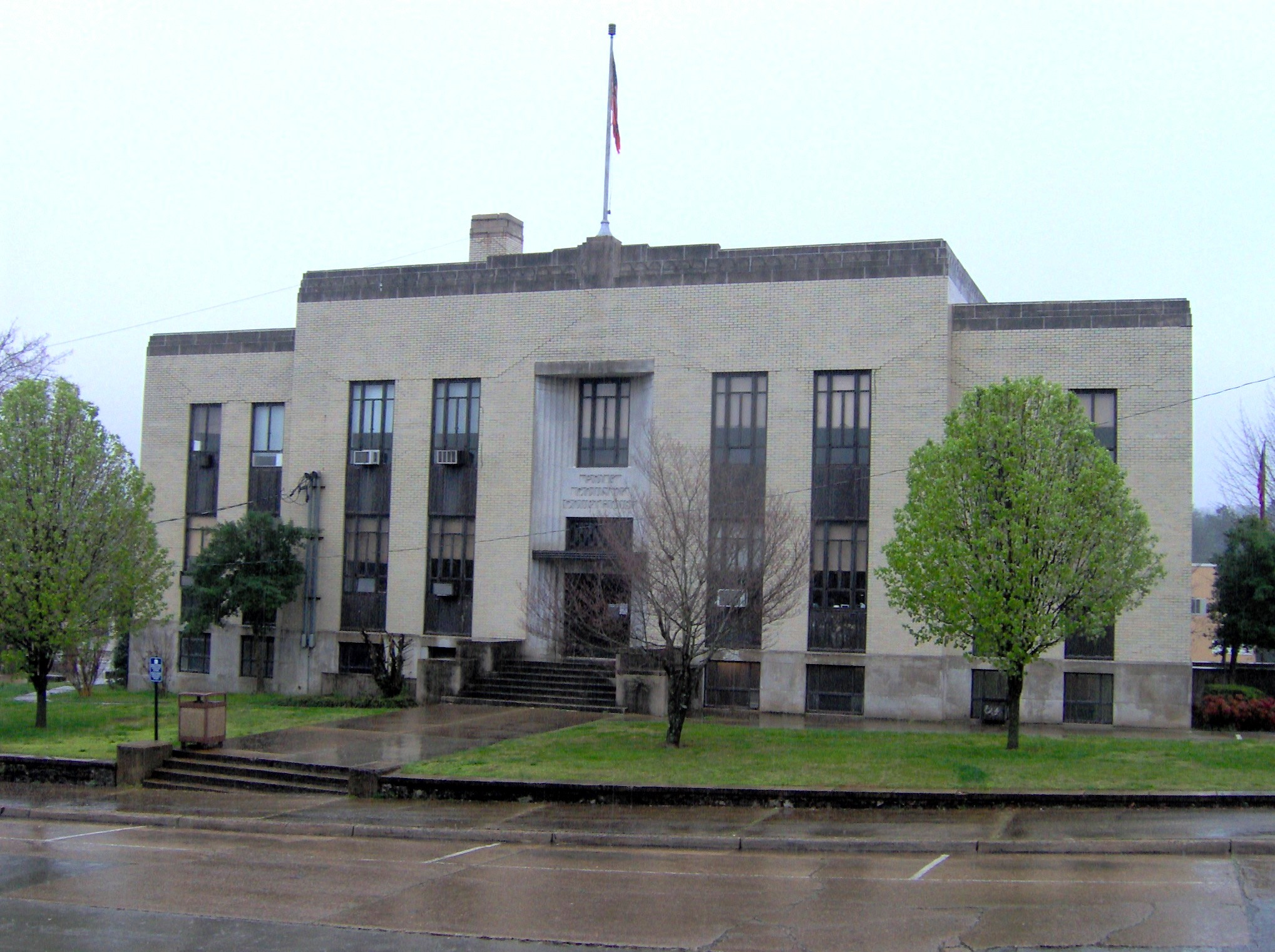 Polk County Courthouse in Benton, Tennessee, in the southeastern United States. The courthouse, built in the late 1800s in the Art Deco style, was added to the National Register of Historic Places in 1993.